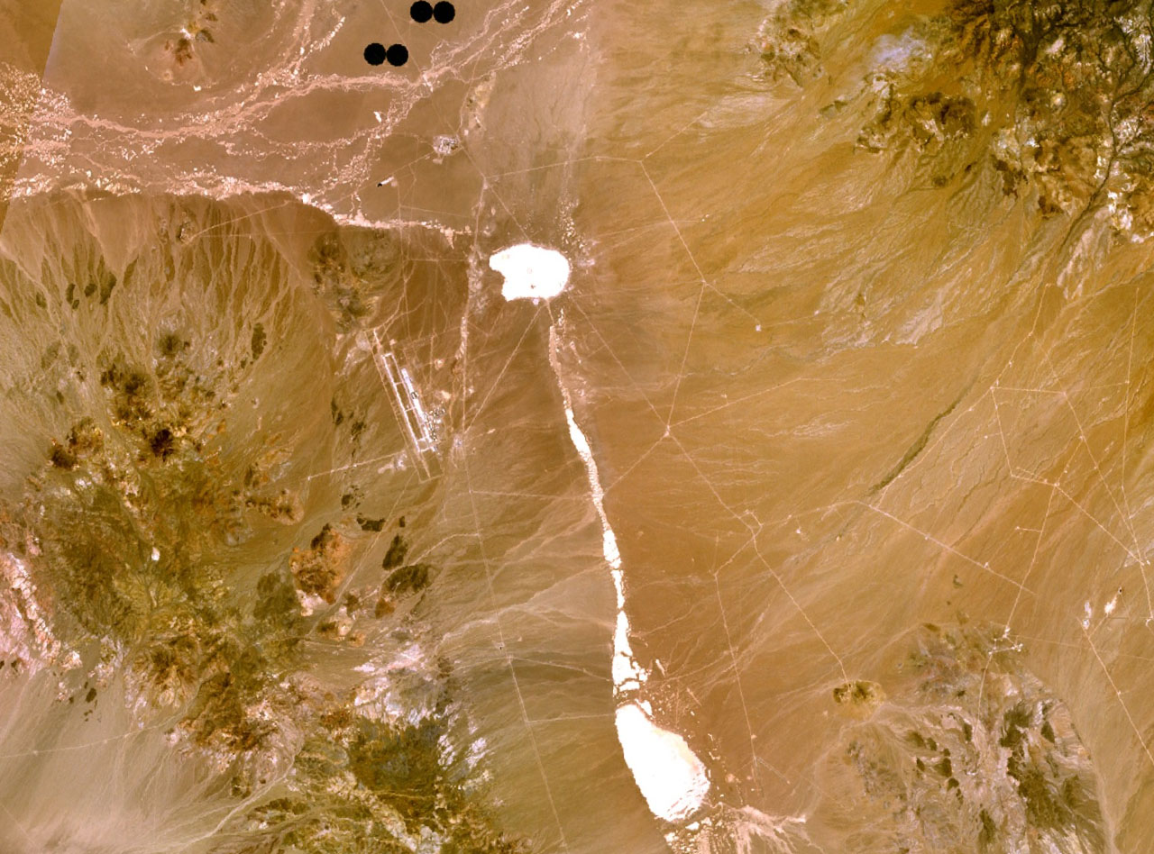 Composite Landsat-7 satellite imagery of Tonopah Test Range in Nevada.